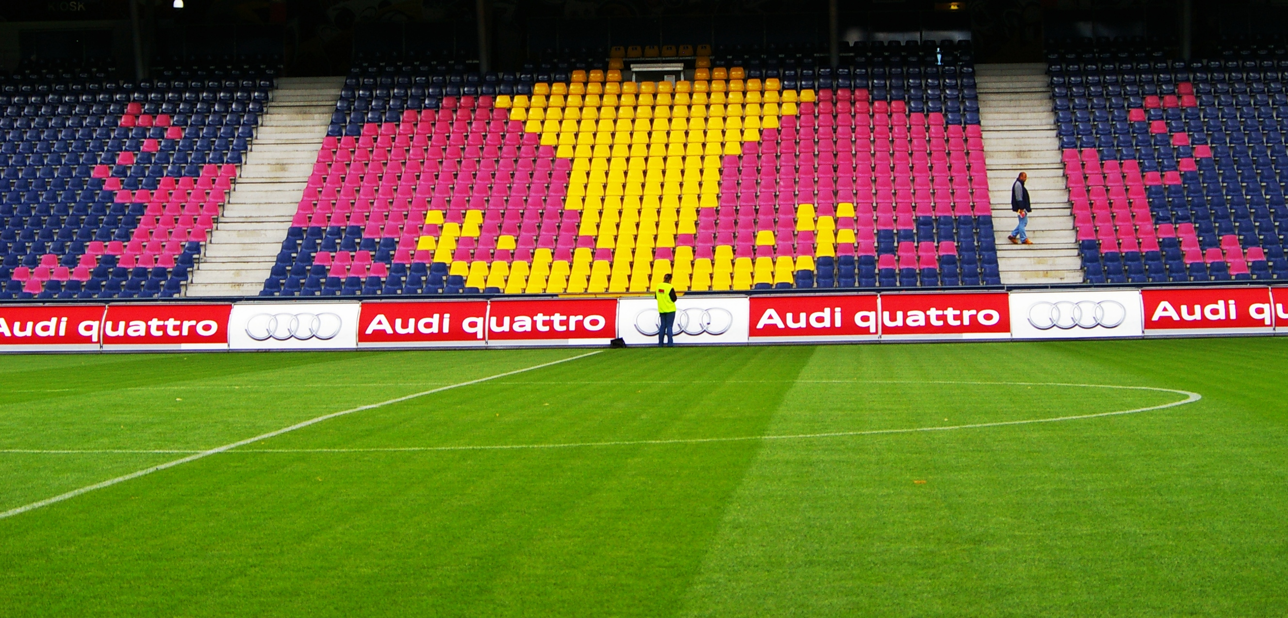 east stand Red Bull Arena Salzburg